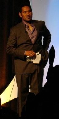 Actor Jay Laga'aia.